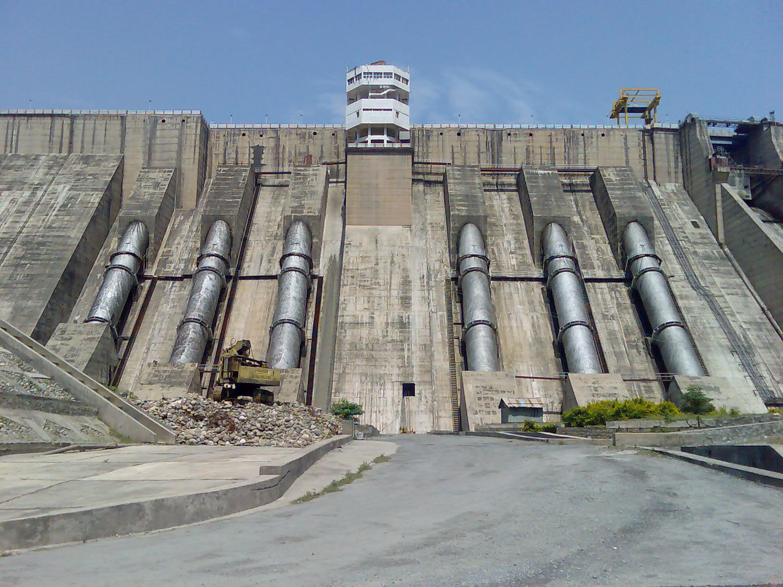 Penstocks, Salal Hydroelectric Power Station, Distt. Reasi, Jammu